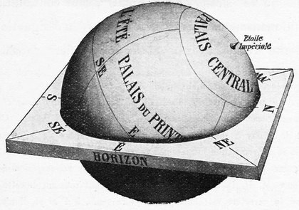 Drawing of ancient Chinese concept of the heavenly spheres